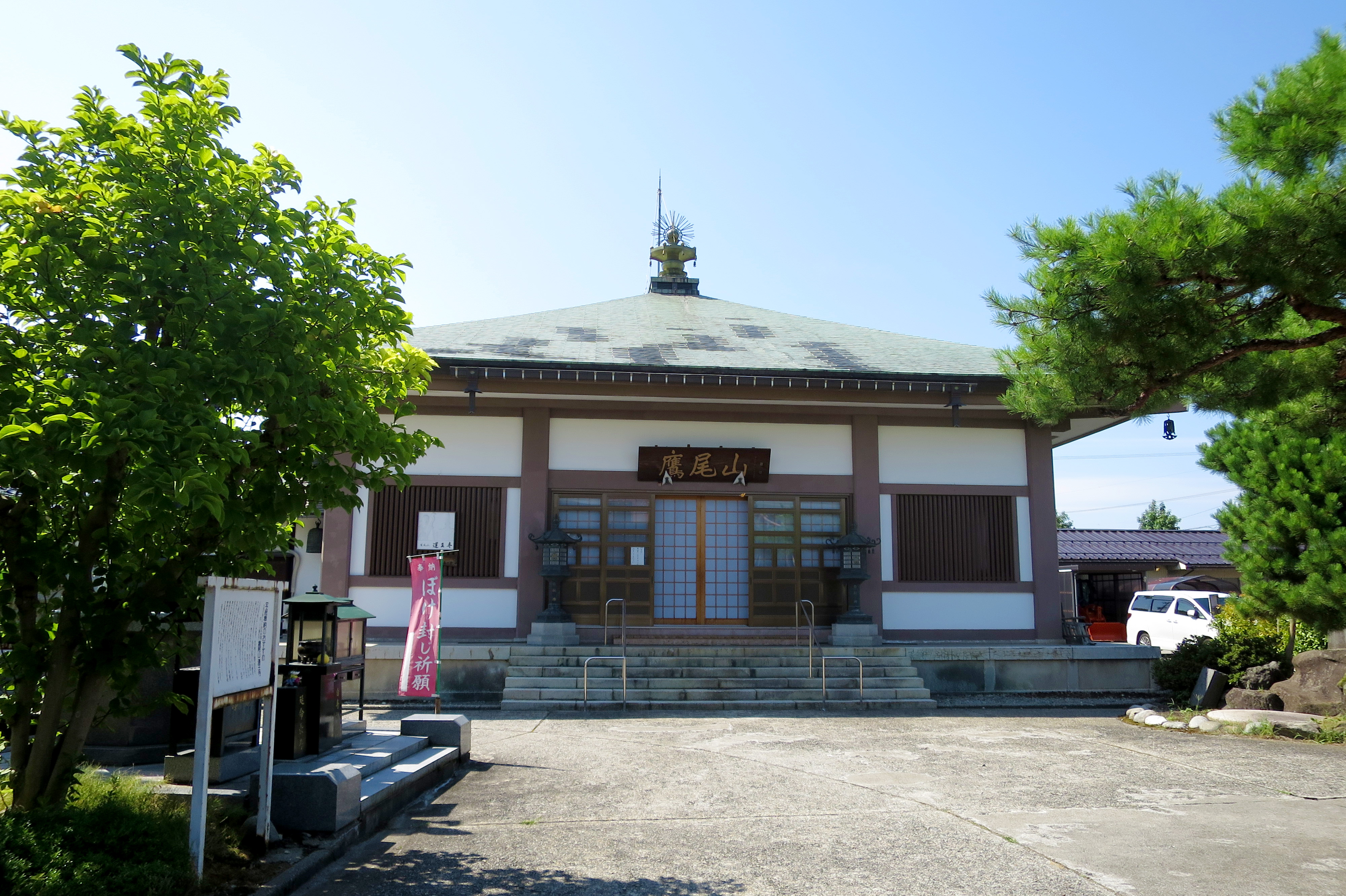 Hondo (main hall), Renno-ji